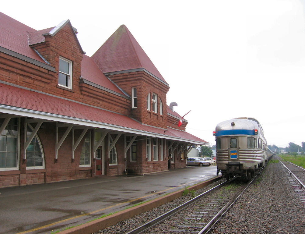 Train leaving the Amherst, Nova Scotia train station, located on the CN main line near the Nova Scotia/New Brunswick border. Picture taken July 2, 2006.